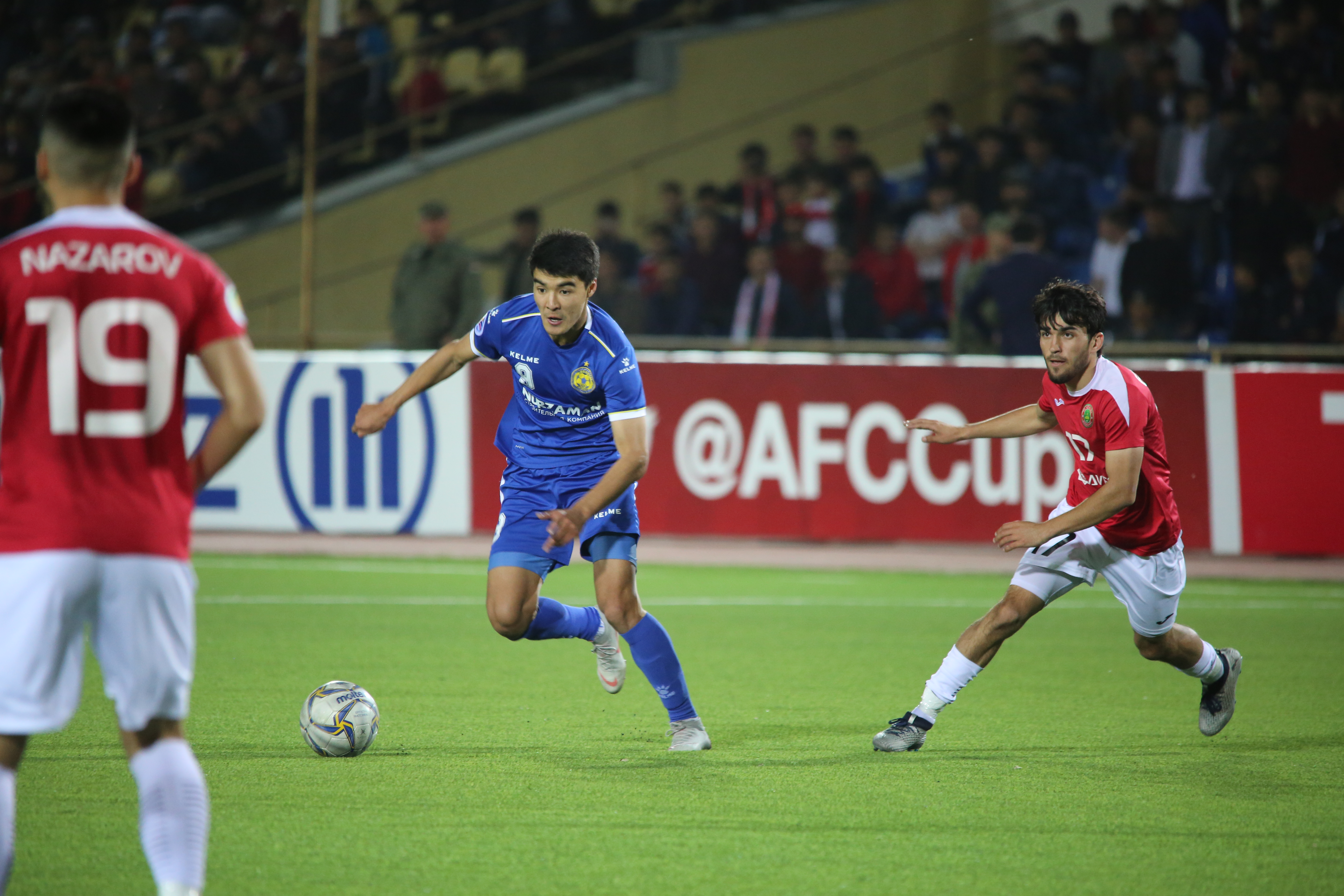 Bekzhan Sagynbaev - AFC Cup 2019